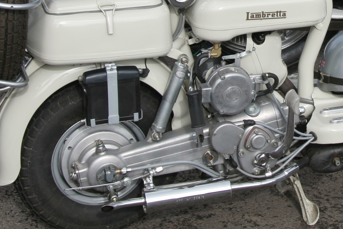 Lambretta Model C 123cc suspension, starboard (right side of rider facing forward)